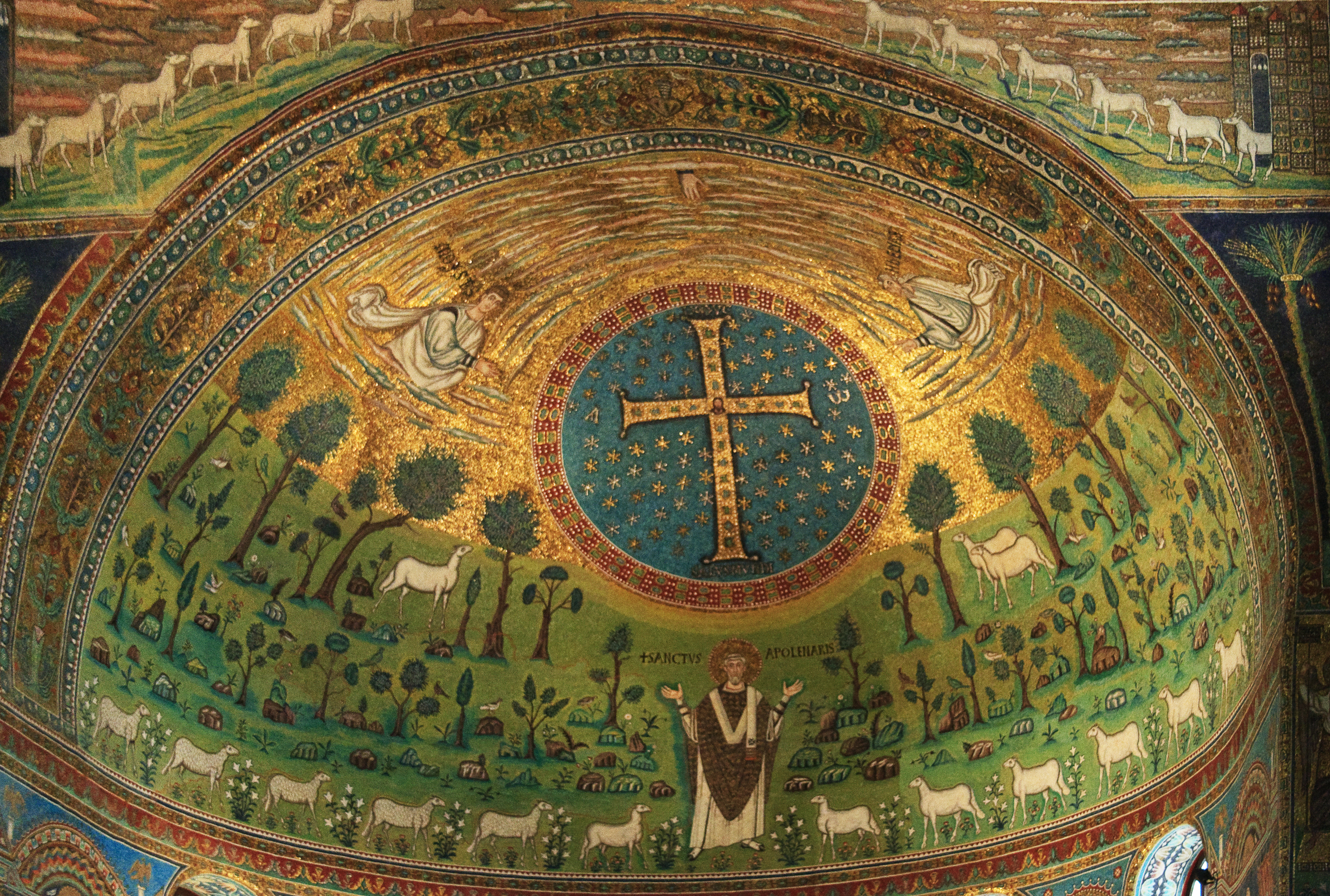 Apse mosaic of Church of Sant'Apollinare in Classe, Ravenna This is a photo of a monument which is part of cultural heritage of Italy.